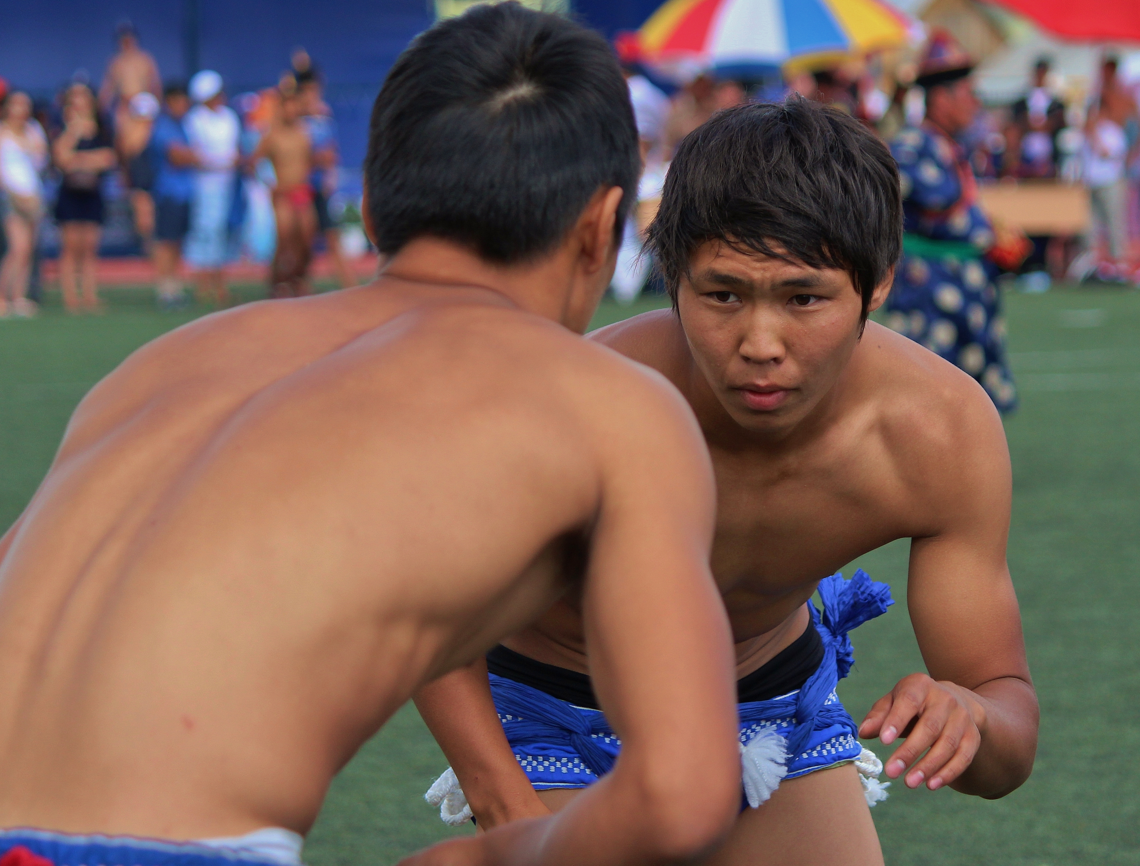 Buryat national wrestling Buhe Barildan. Buryat culture festival "Altargana". Transbaikalia territory, settlement Aginskoye